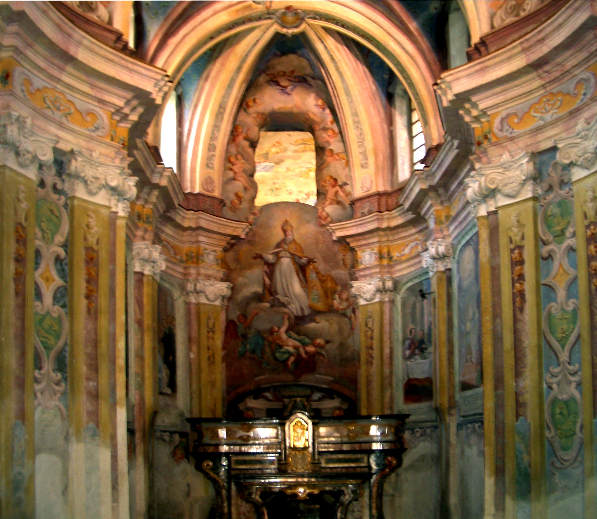 St. Gaudenzio Church at Ivrea (Torino), XVIII century